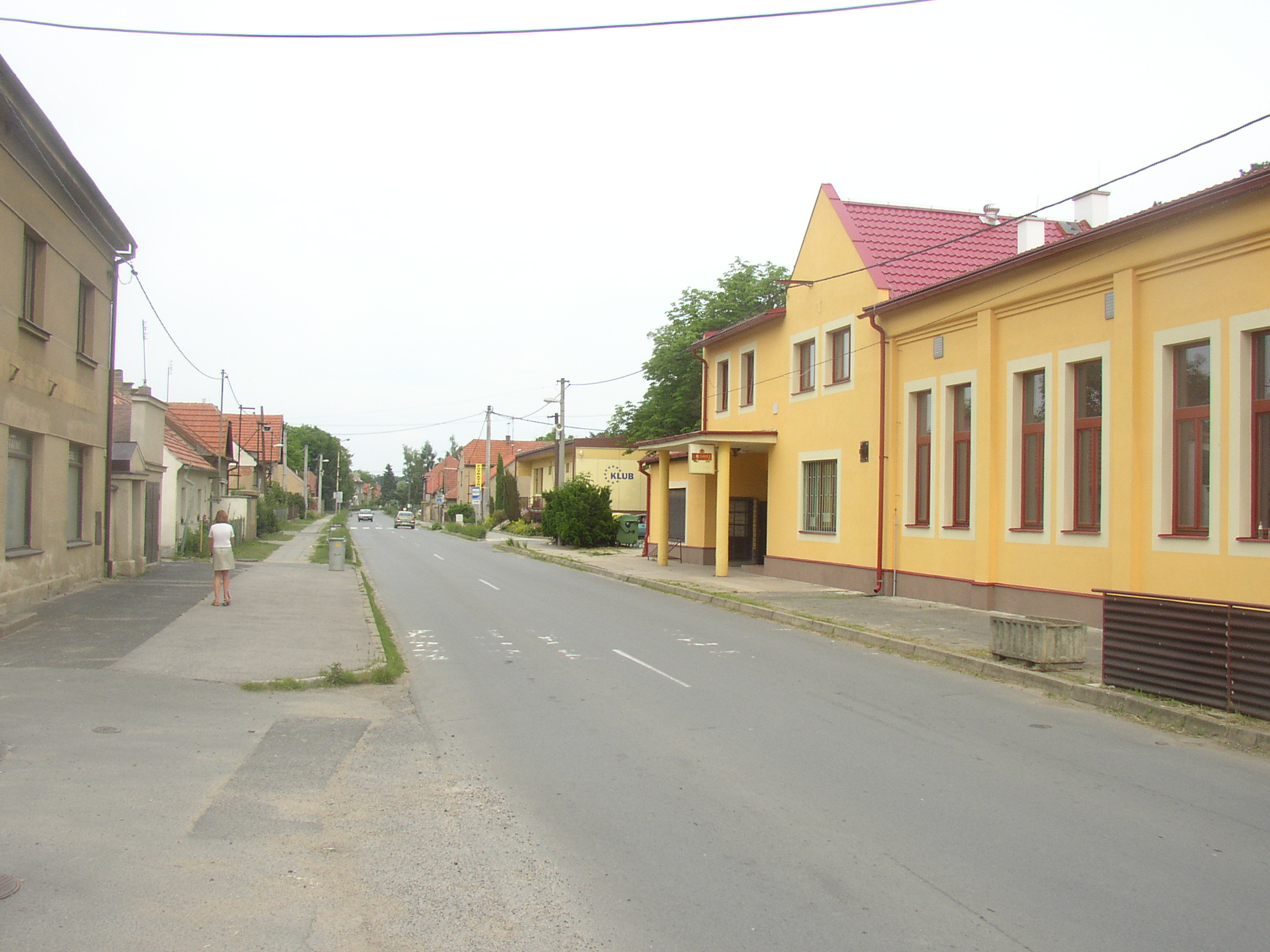 Vojkovice, Mělník District, Czech Republic. A view along thoroughfare in centre of the village towards ENE.